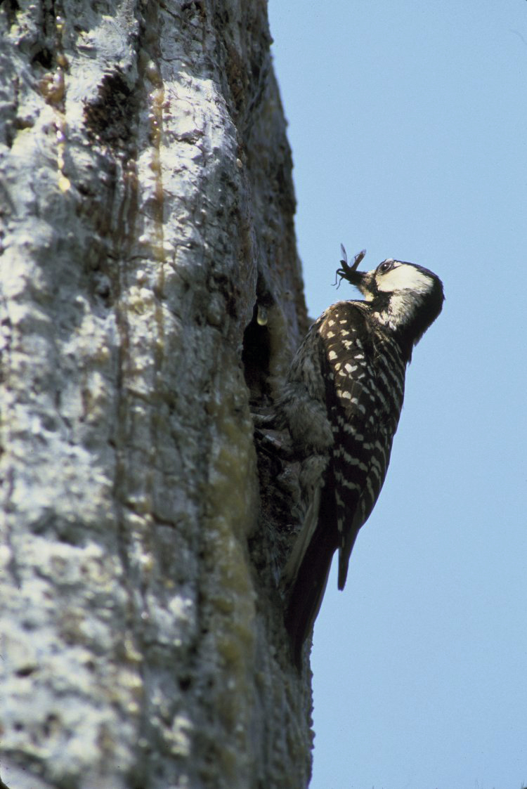 Picoides borealis, Georgia, USA